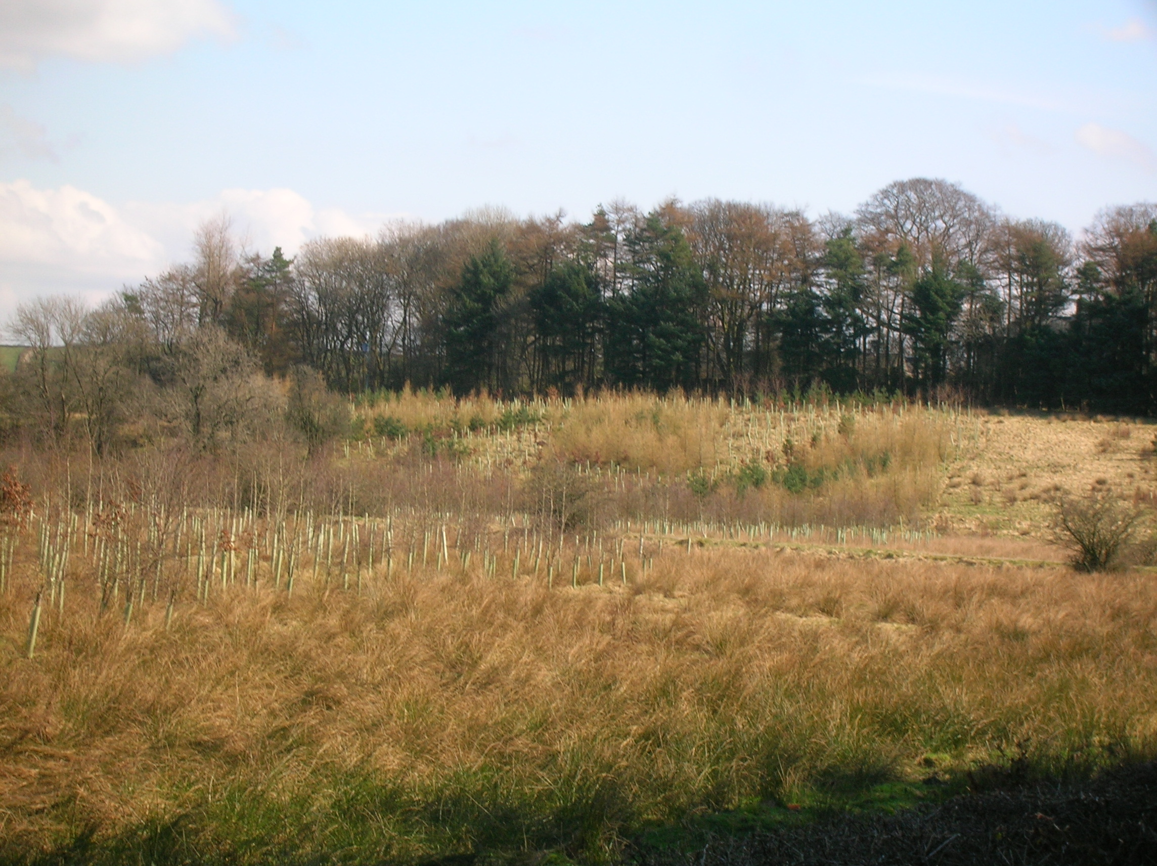 Pitcon Knoll, Drakemyre, North Ayrshire, Scotland